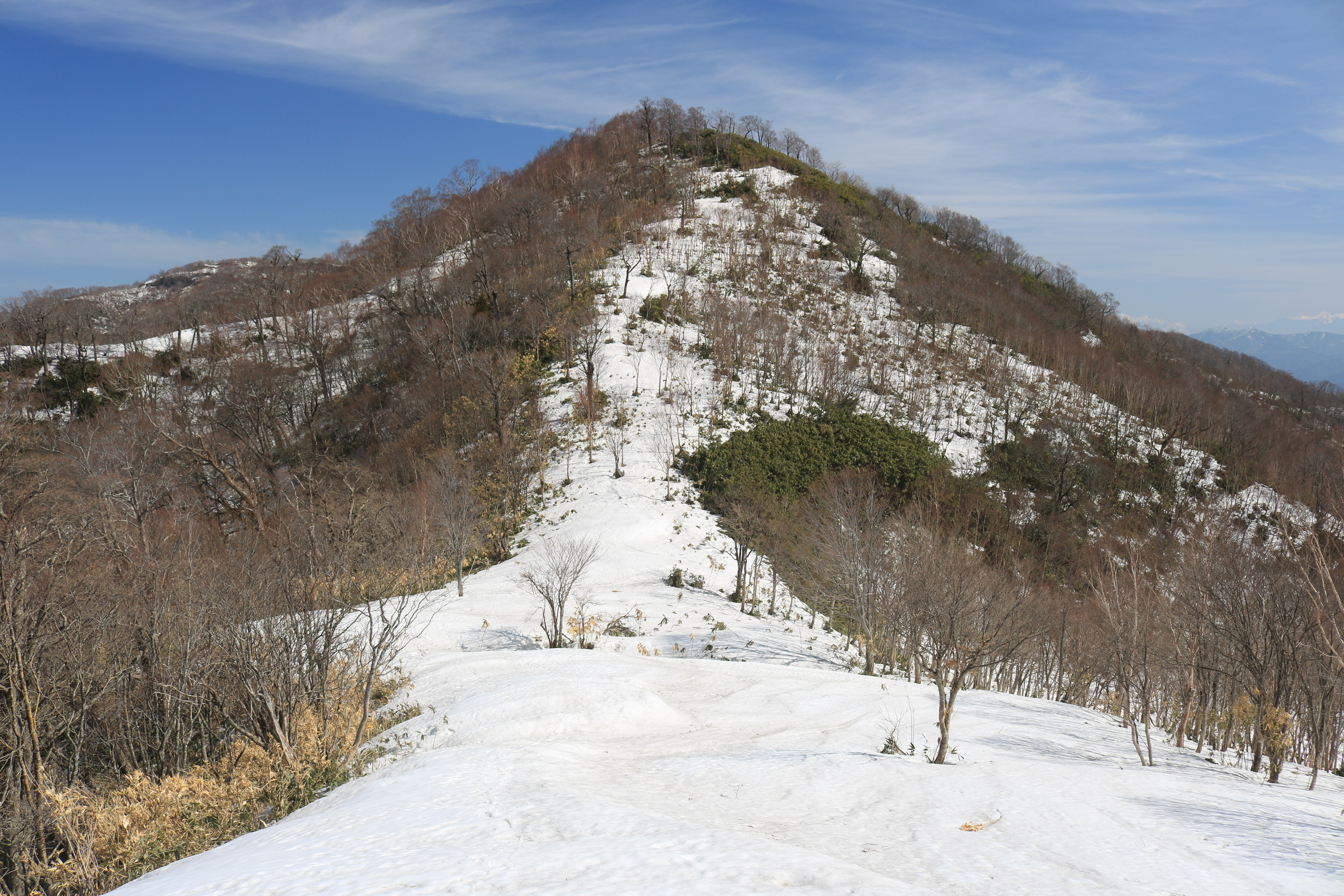 1552m peak on northern ridge of Mount Eboshi in Hida Highland, Japan.